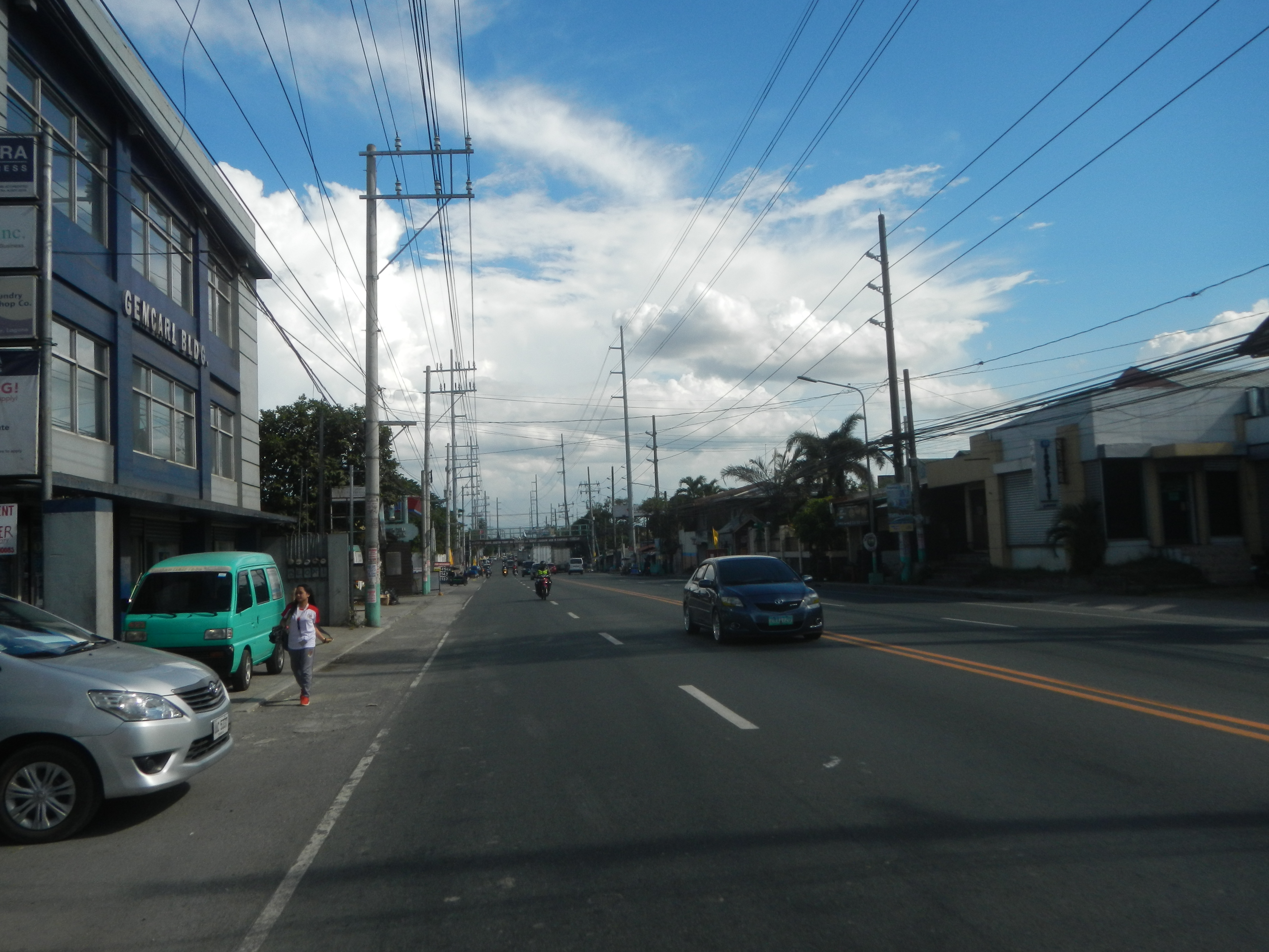 Milagrosa, Calamba to Walter Mart (Makiling, Calamba City) along Maharlika Highway (Calamba City section) Pan-Philippine Highway; in Makiling 14°9'8"N 121°8'17"E Barangays Makiling, Calamba Milagrosa Turbina, Calamba Poblacion I, Calamba Poblacion II, III, IV, VI and VII, Calamba and Poblacion V, Calamba Calamba, Laguna Poblacion 14°12'32"N 121°9'46"E Calamba Poblacion (Note: Judge Florentino Floro, the owner, to repeat, Donor Florentino Floro of all these photos hereby donate gratuitously, freely and unconditionally Judge Floro all these photos to and for Wikimedia Commons, exclusively, for public use of the public domain, and again without any condition whatsoever).